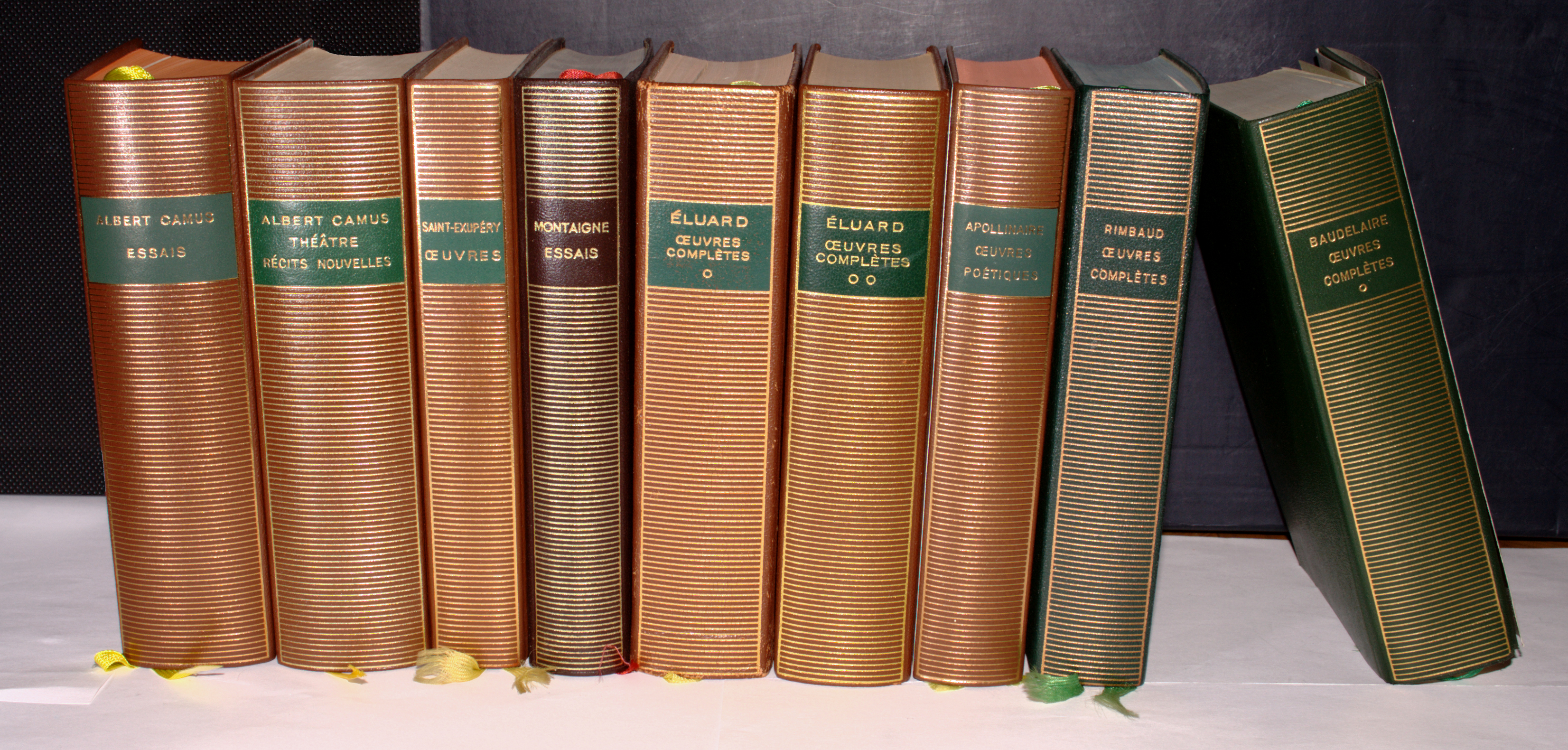 Nine books from the Pléiade collection, Gallimard: Camus, Saint-Exupéry, Montaigne, Eluard, Apollinaire, Rimbaud, Baudelaire.